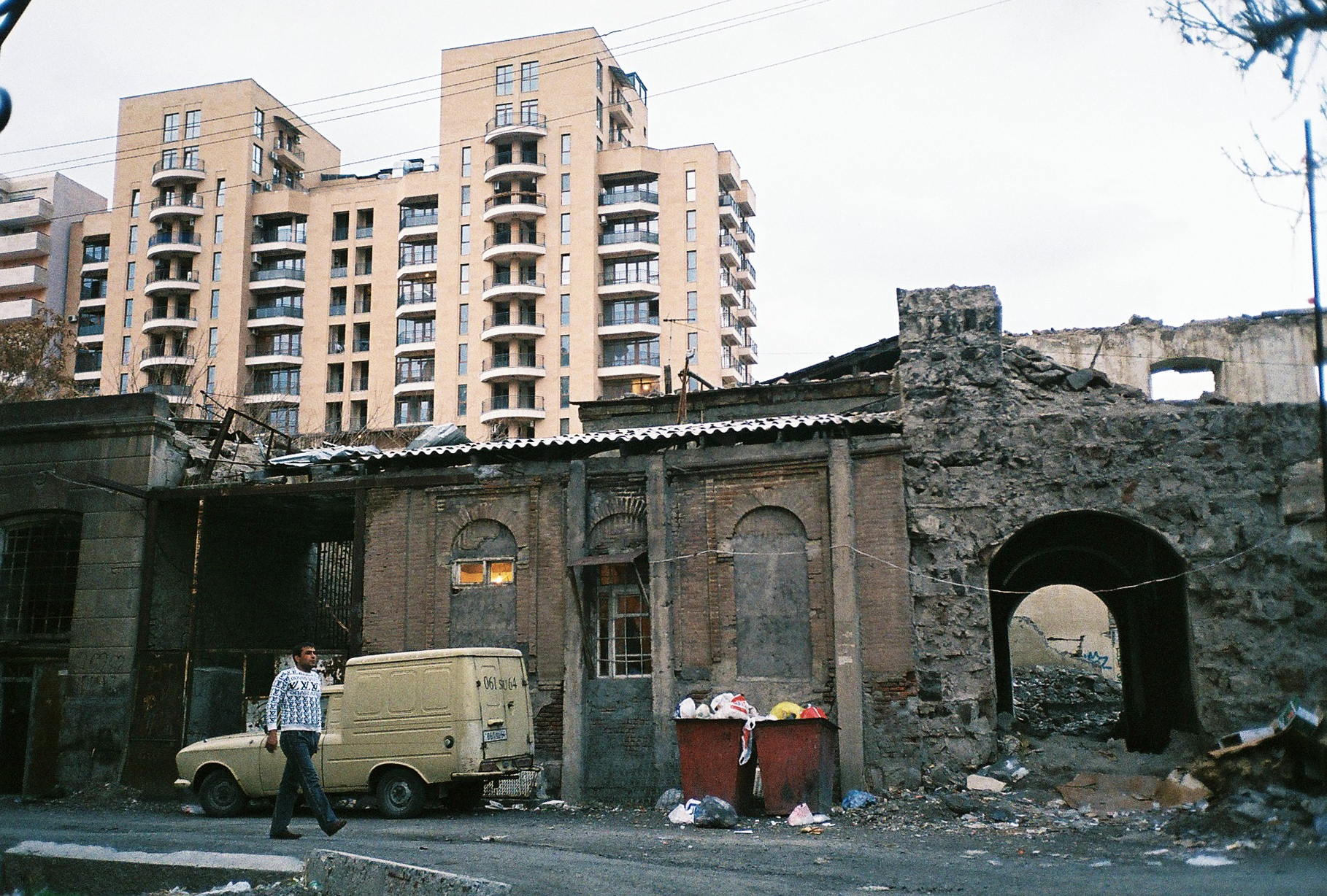 mixture of old and new at the intersection of Yeznik Koghbatsi and Pavstos Byuzand streets, Yerevan (2014)